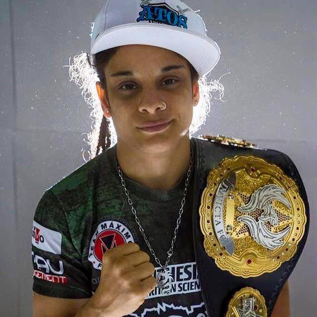 Invicta FC Strawweight champion Livia Renata Souza